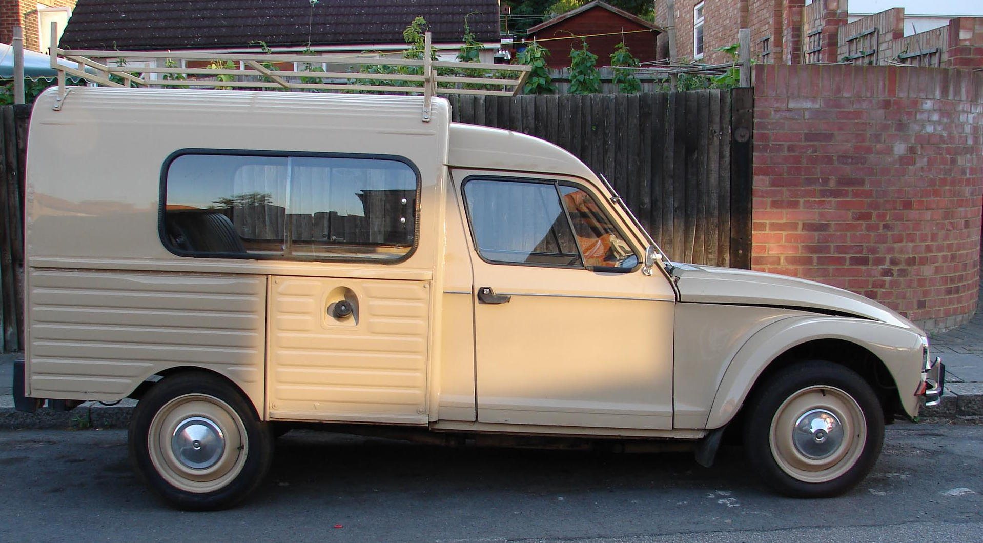 Image of a Citroen Acadiane 'Mixte'. Year 1985.